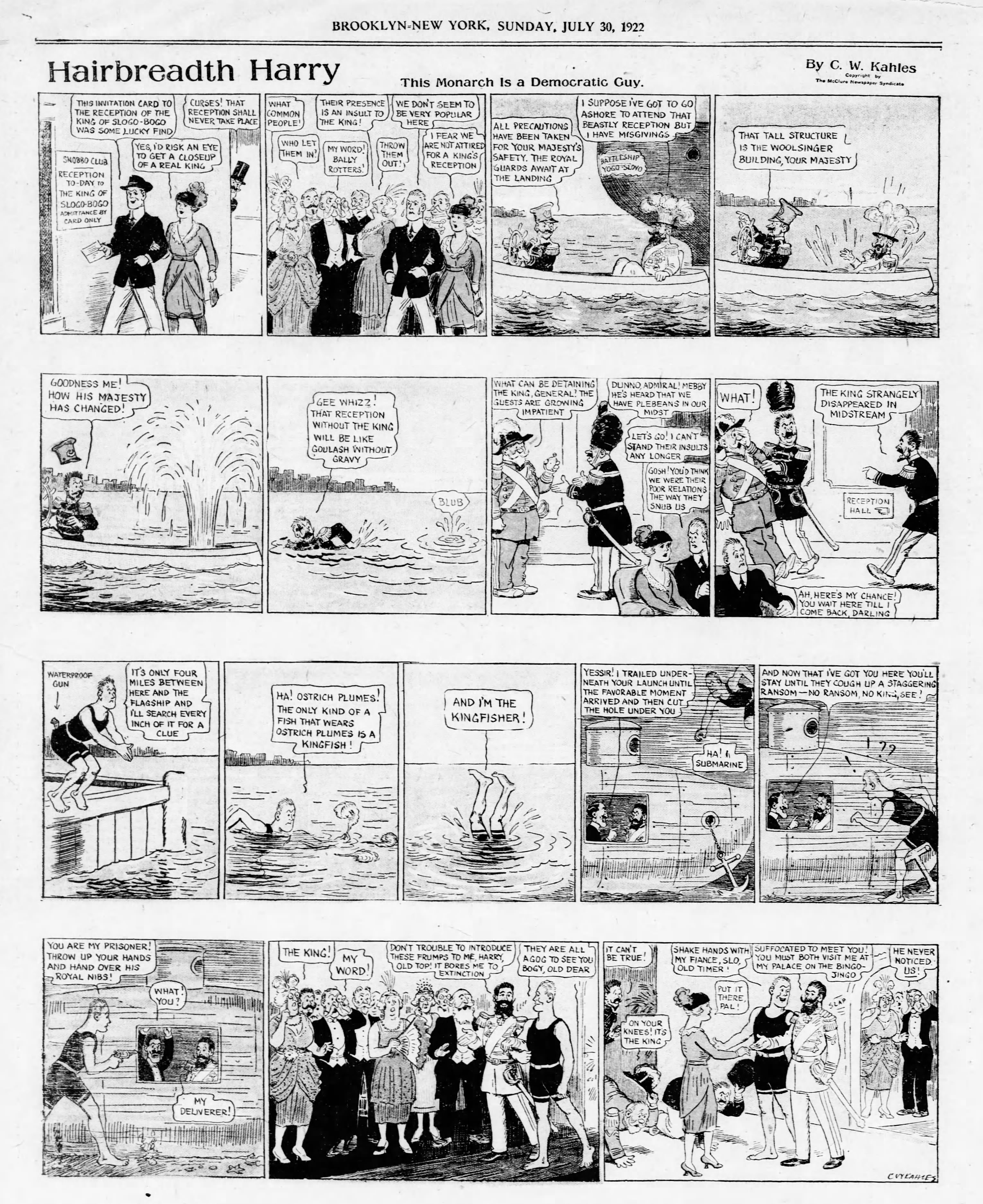 A 1922 Hairbreadth Harry comic strip by C. W. Kahles. The text in this image should be transcribed and included in the description on this page. See also Inscription . The Google OCR tool may be of use in transcribing images.